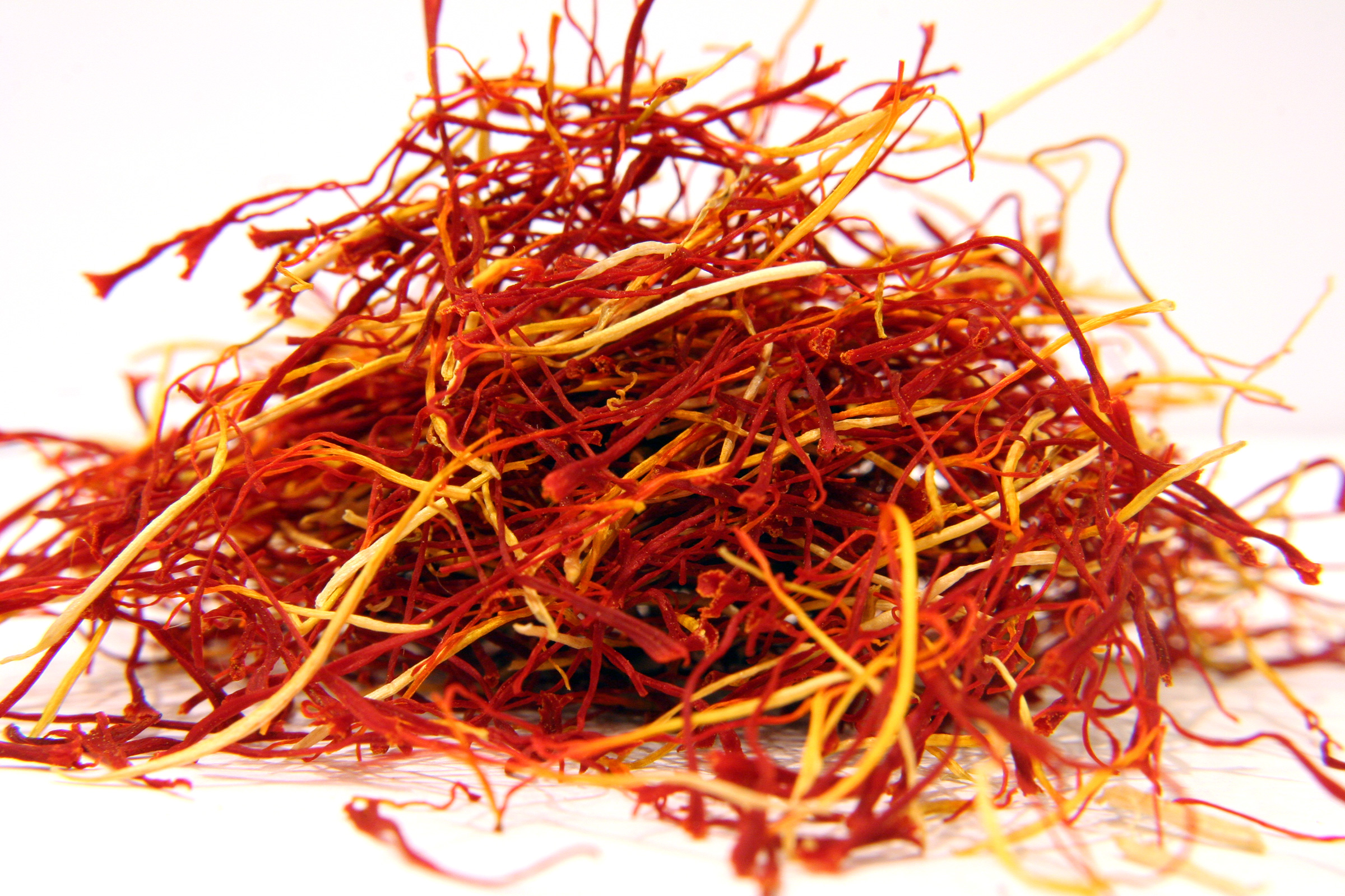 Dried Saffron flower stigmas, from saffron farms, Torbat-e-Heidariyeh, Razavi Khorasan province, Iran - Photo by: Safa Daneshvar